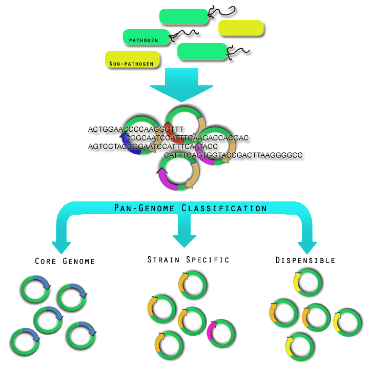 Illustrating the process of classifying a pan-genome. Sequence data is collected from multiple strains of a microbe species; these strains may be pathogenic or not. Once the data is collected, a pan-genome can be assembled. There are three principle classifications of genes in a pan-genome : core genes, strain-specific genes and disposable genes.